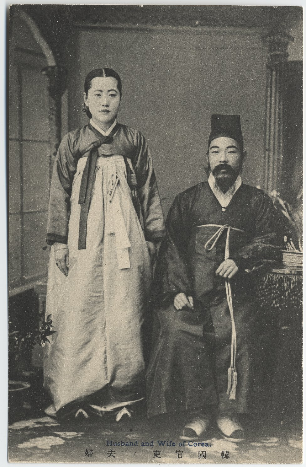 Collection: Willard Dickerman Straight and Early U.S.-Korea Diplomatic Relations, Cornell University Library Title: Husband and wife of Corea Date: ca. 1904 Place: Asia: South Korea Type: Postcards/Ephemera Description: Obviously a well-crafted studio photograph, the couple depicted here (without any children) is composed and face the camera directly. Both in traditional Korean attire, the husband (an official) is seated, while the woman stands to his right. Source: Kwon, O-chang. Inmurhwaro ponun Choson sidae uri ot, 1998, p. 128. Inscription/Marks: Inscription imprinted on image: 'Husband and wife of Corea' Identifier: 1260.74.12.07 Persistent URI: There are no known U.S. copyright restrictions on this image. The digital file is owned by the Cornell University Library which is making it freely available with the request that, when possible, the Library be credited as its source. We had some help with the geocoding from Web Services by Yahoo!